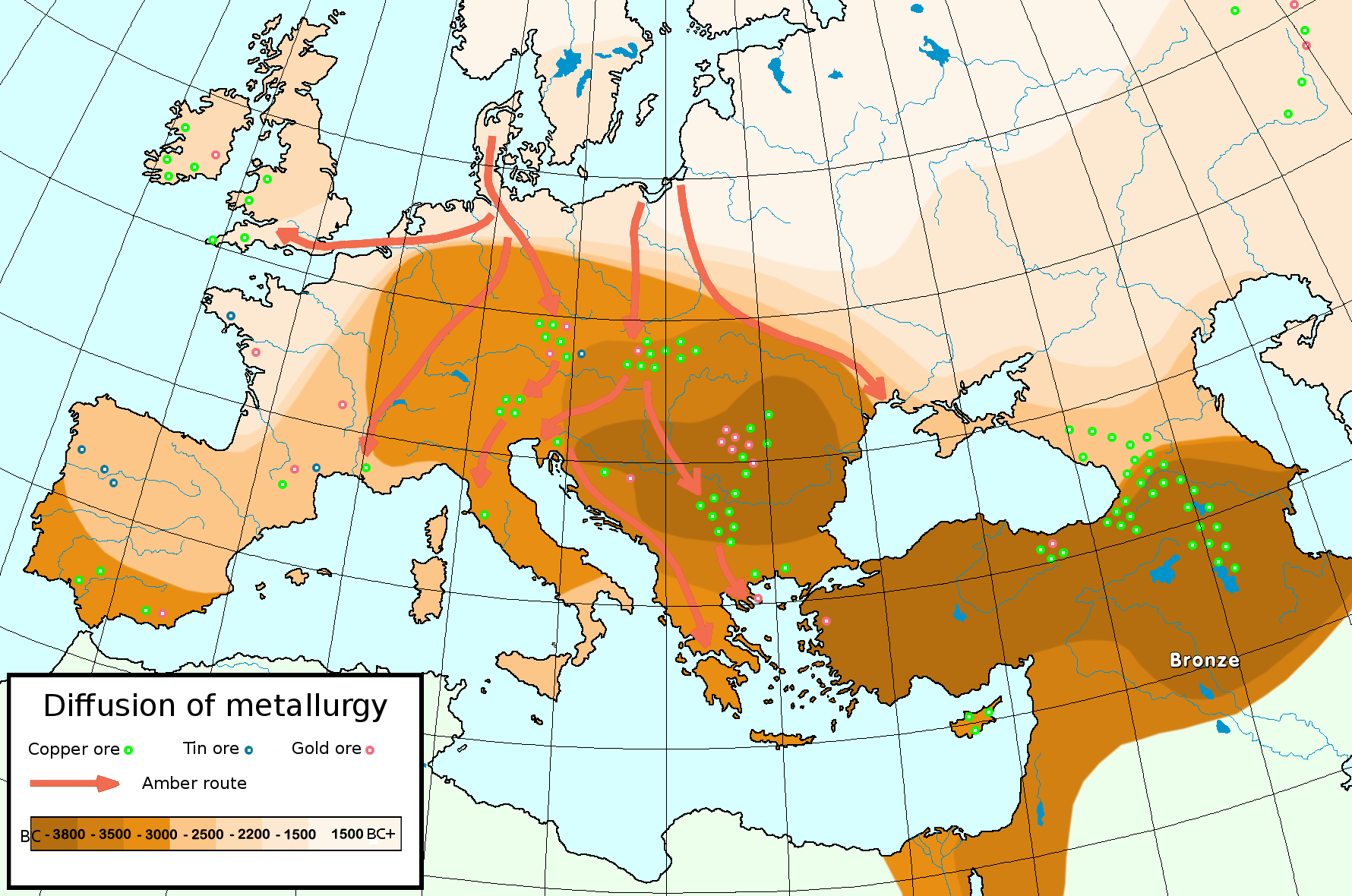 Map of the diffusion of metallurgy.